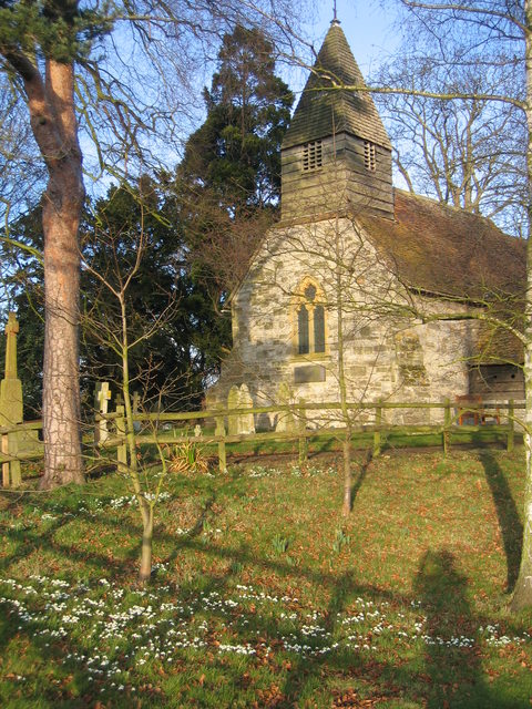 Kinwarton Church. This small church was the Parish Church and was once surrounded by the ancient village of Kinwarton. The village has long since disappeared leaving only the church, the adjacent rectory, the 17th Century timbered Glebe Farm and the nearby 14th Century Dovecote.